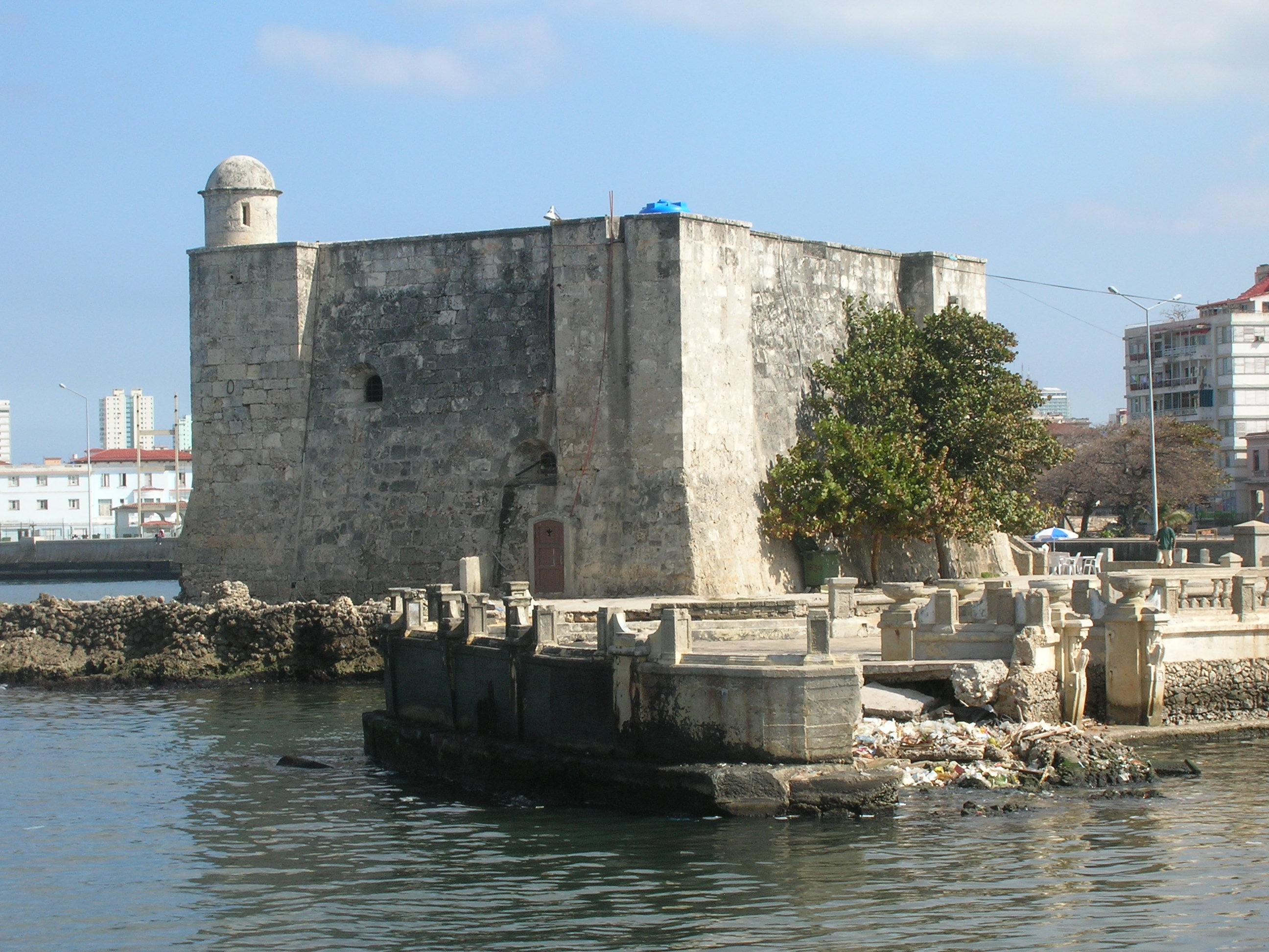 Torreón de la Chorrera , Havana, Cuba